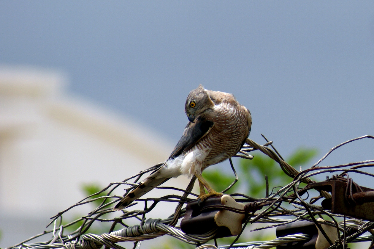 A bird found in Kerala.